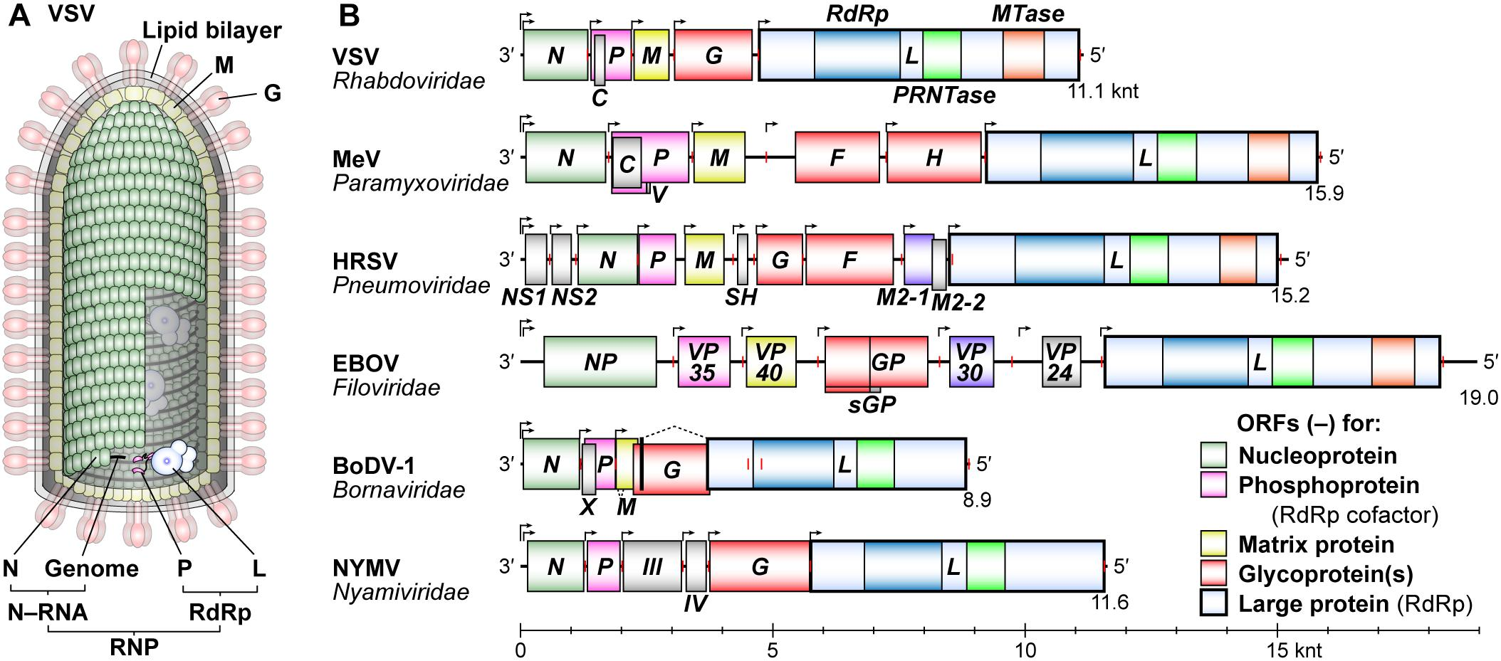 Schematic diagrams of a vesicular stomatitis virus (VSV) virion and Non-segmented negative strand (NNS) RNA viral genomes. (A) A VSV particle is composed of a cellular lipid bilayer, viral RNA genome, and five viral proteins: nucleo- (N), phospho- (P), matrix (M), glyco- (G), and large (L) proteins. The virus particle contains a ribonucleoprotein (RNP) composed of N–RNA and RNA-dependent RNA polymerase (RdRp) complexes. (B) The gene organization of negative-strand genomes of typical NNS RNA viruses [measles virus (MeV), human respiratory syncytial virus (HRSV), Ebola virus (EBOV), Borna disease virus 1 (BoDV-1), and Nyamanini virus (NYMV)] belonging to different families is depicted in the 3′ to 5′ order. Transcription initiation and termination sites are shown by bent arrows and red vertical lines, respectively. The positions of negative-strand open reading frames are shown by colored boxes. The L genes encode an L protein with RdRp, GDP polyribonucleotidyltransferase (PRNTase), and methyltransferase (MTase, except for nuclear-replicating viruses) domains. A scale bar is shown at the bottom (knt, kilo nucleotides).